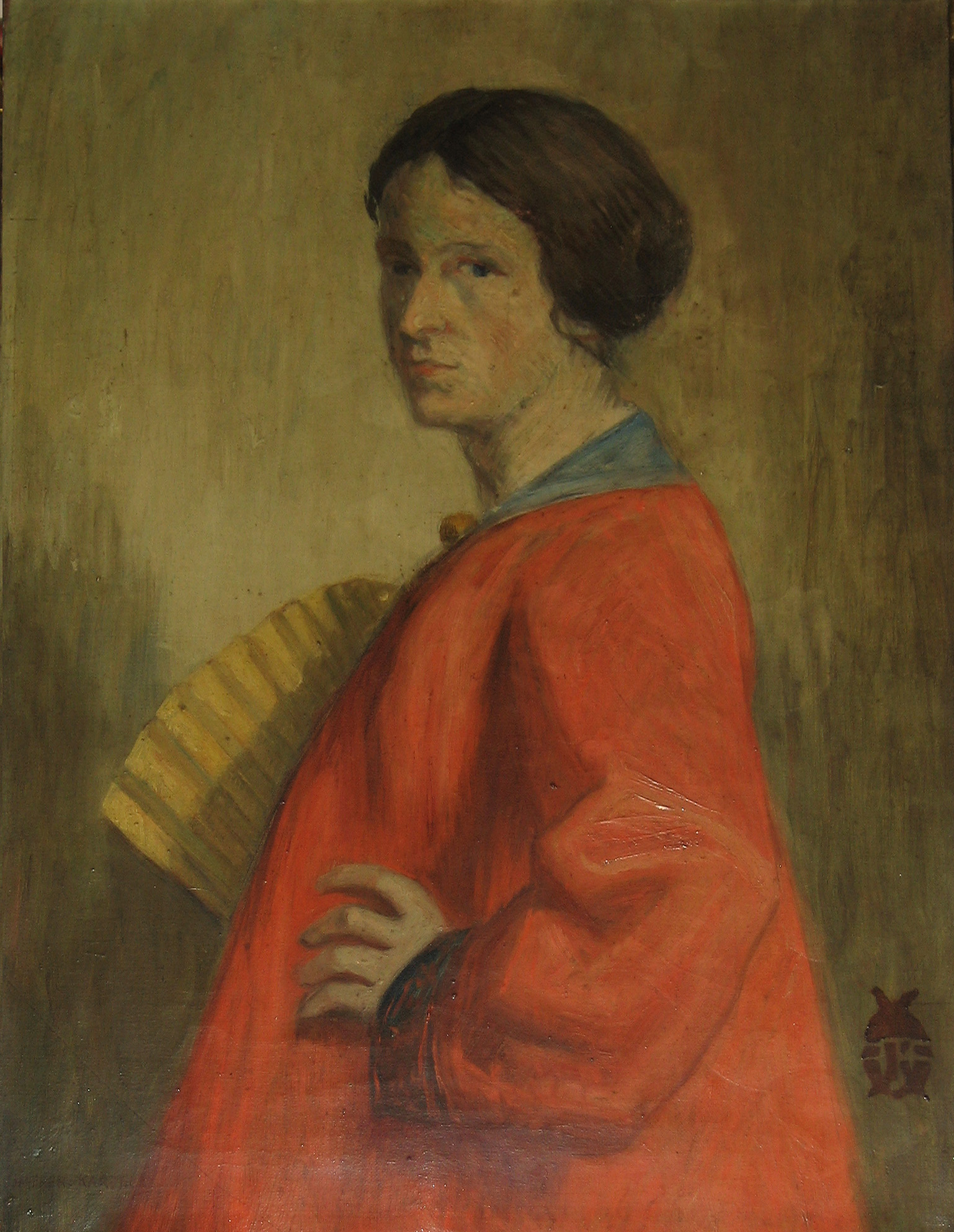 Karel verschaeren, painting of his wife Bertha de Bleser with fan and Japanese kimono